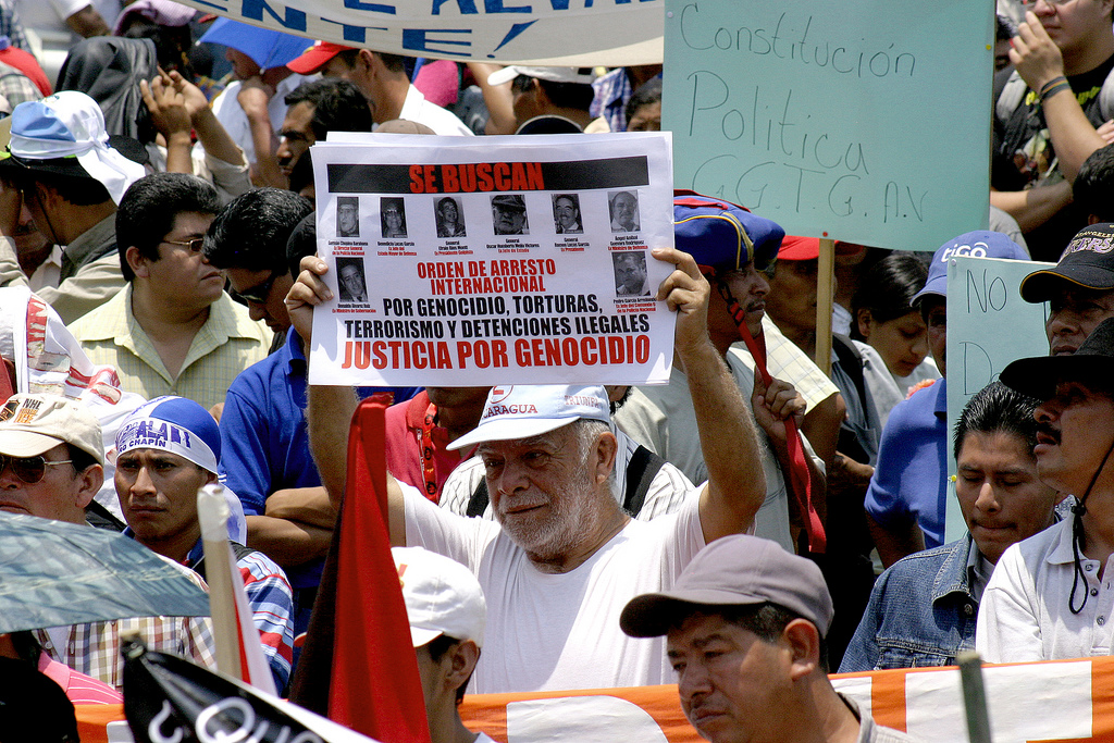 Demanding justice - A man lifts a poster demanding justice for genocide. In the poster are photographs of Germán Chupina, Benedicto Lucas García, Efraín Ríos Montt, Oscar Humberto Mejía Victores, Romeo Lucas García, Angel Anibal Guevara, Pedro García Arredondo y Donaldo Alvarez Ruíz.